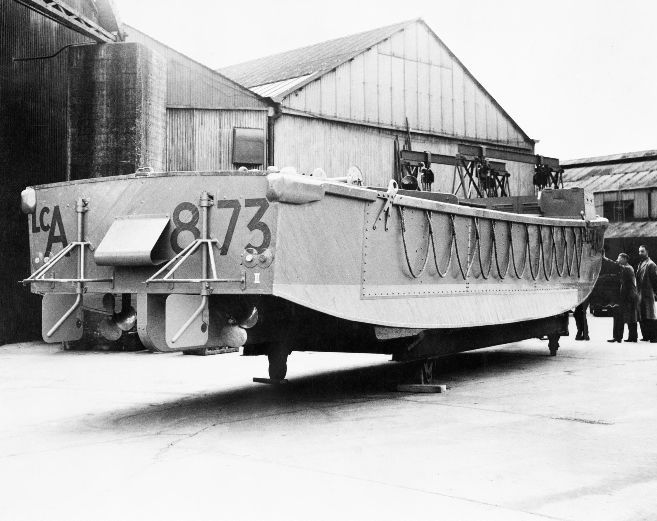 A newly-completed LCA (assault landing craft) ready for launching, 1942. An LCA built at Messrs Harris Lebus ready for launching.